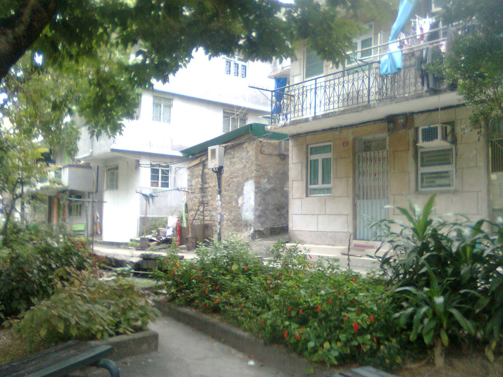 Kak Tin Village, Tai Wai, Sha Tin District, Hong Kong.